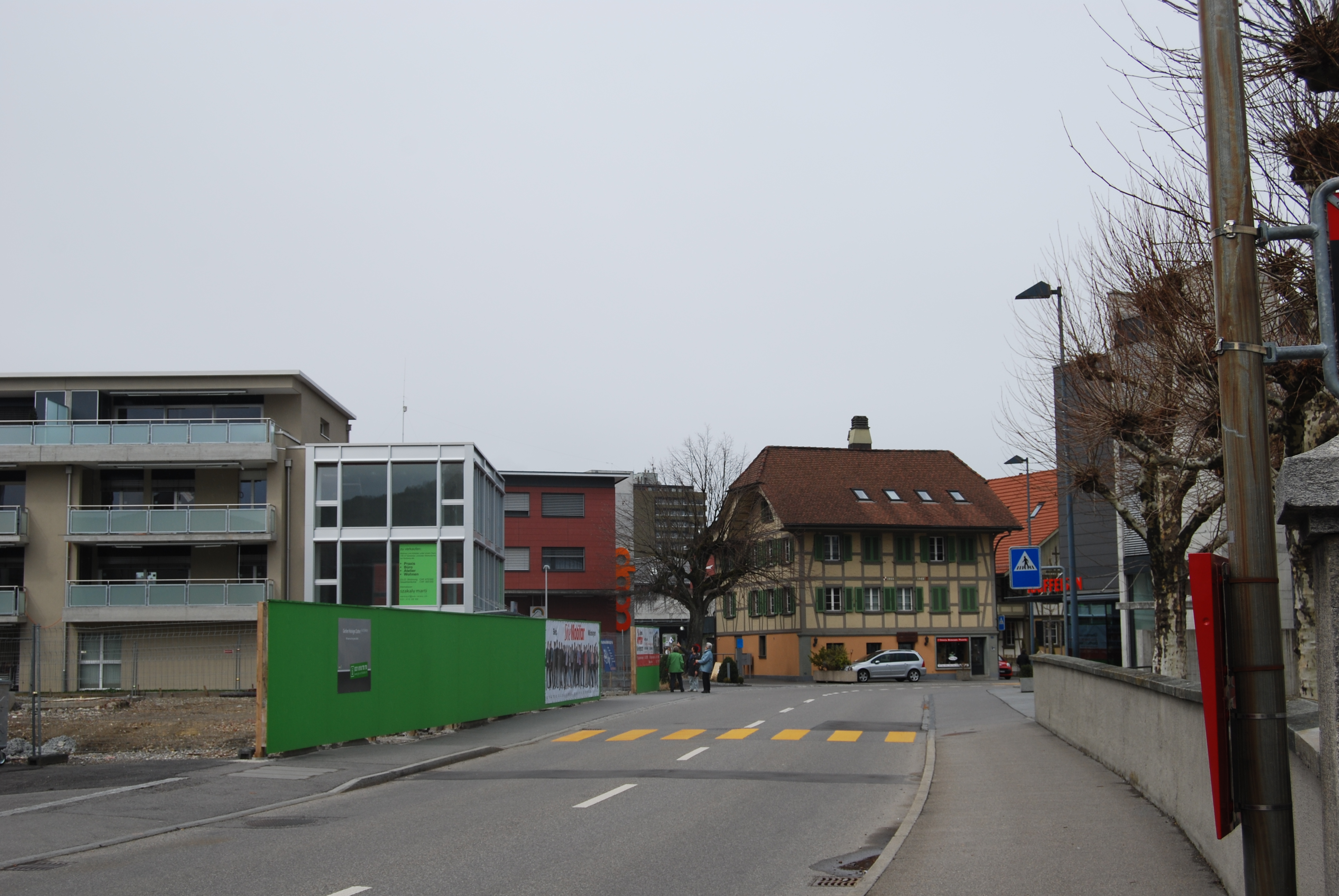 Belp, canton of Bern, SwitzerlandEsperanto: Belp, Kantono Berno, Svislando